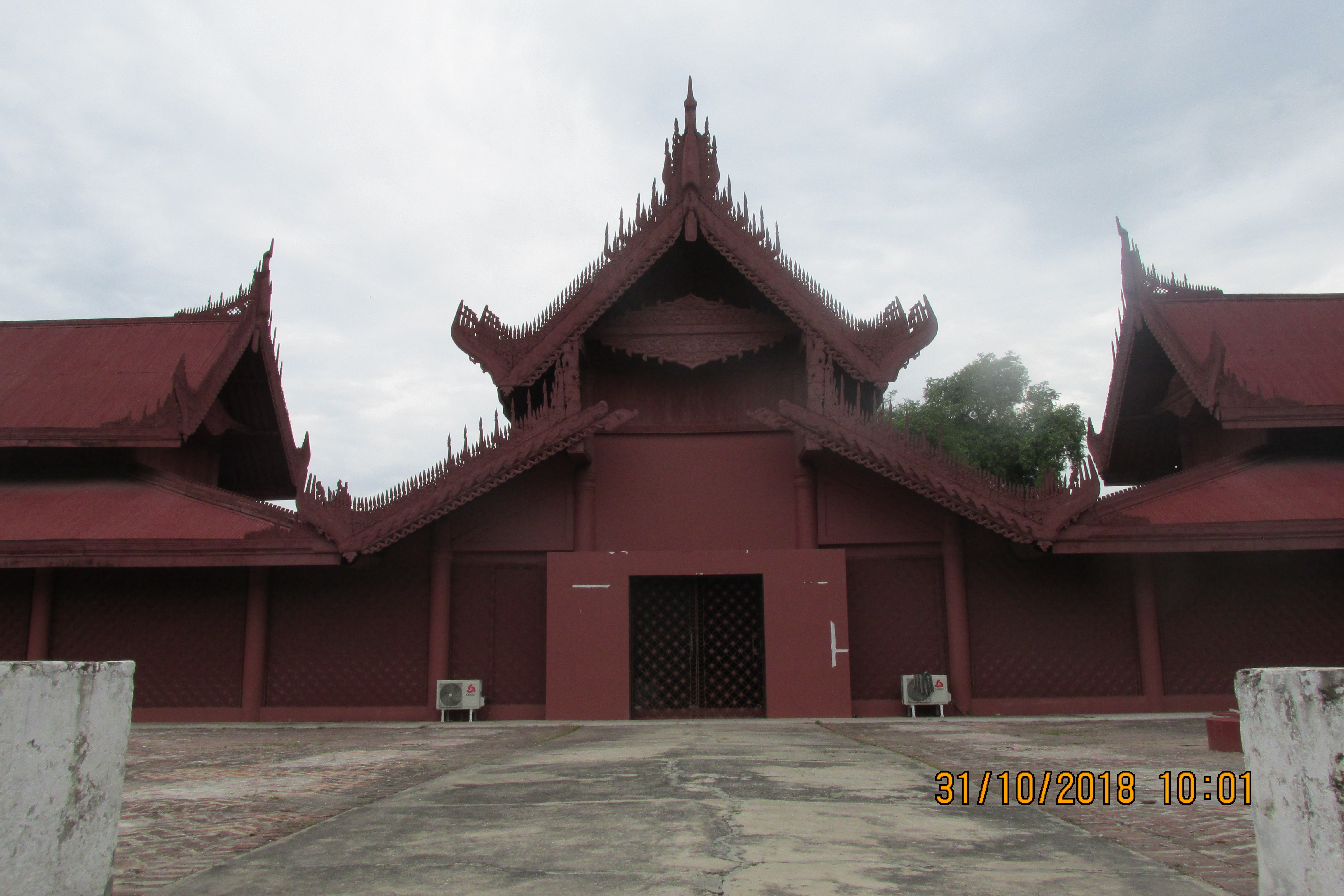 The museum in Mandalay Palace's West Zaytawun Building မြန်မာဘာသာ: မန္တ​လေးနန်း​တော်ရှိ အ​နောက်​ဇေတဝန်​ဆောင်တွင်ဖွင့်လှစ်ထား​သော နန်းတွင်းပြတိုက်